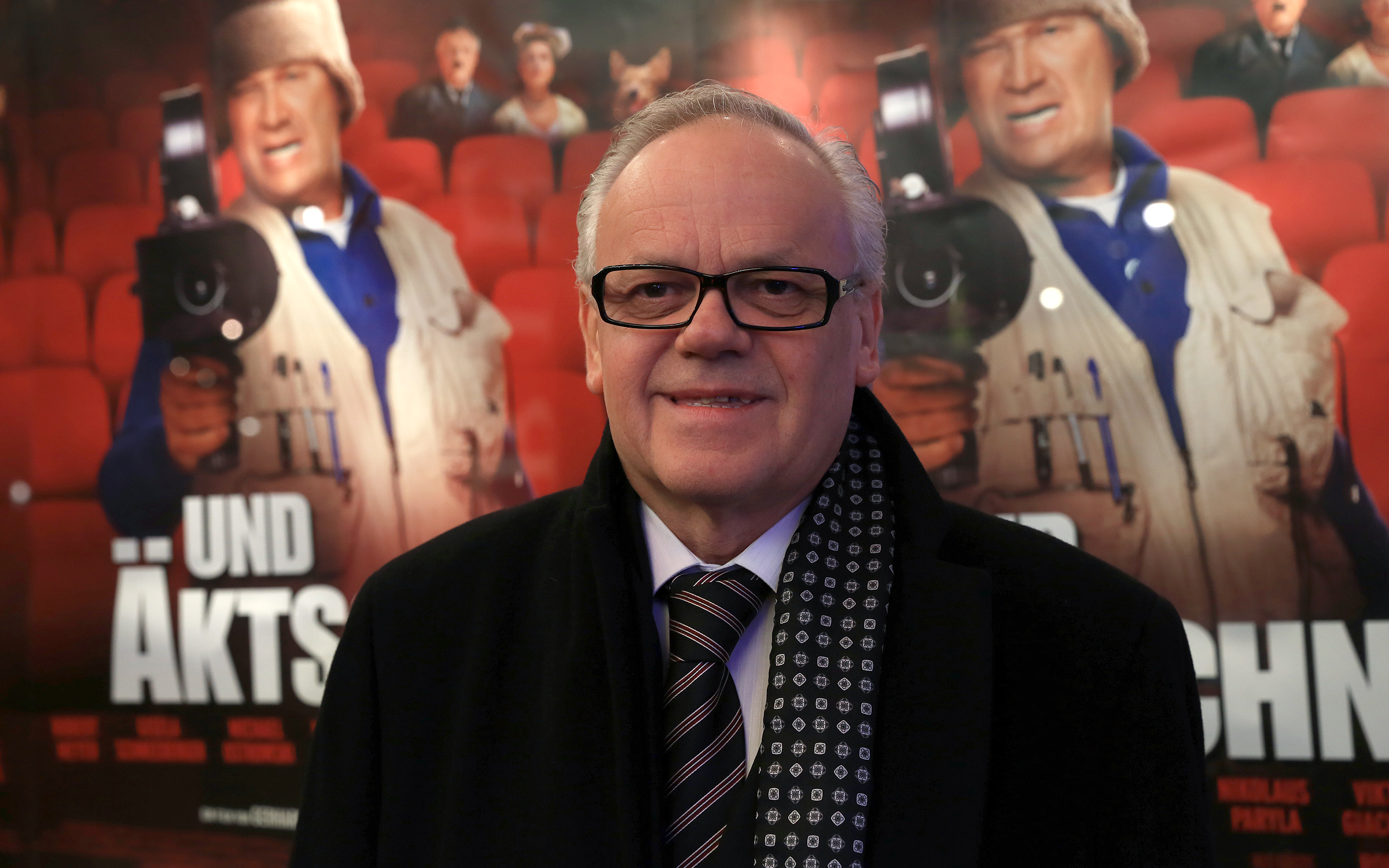 Robert Meyer at the Austrian premiere of Und Äktschn! at Gartenbaukino in Vienna.